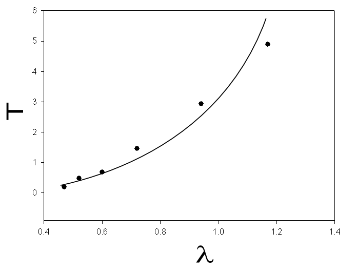 Melde's experiment graphic tension vs wavelenght